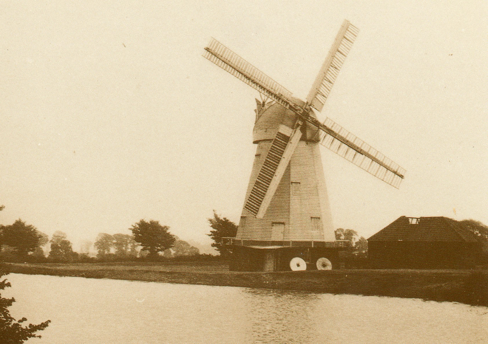 South Ockendon Windmill, c1900. Reproduction postcard by Thurrock Council